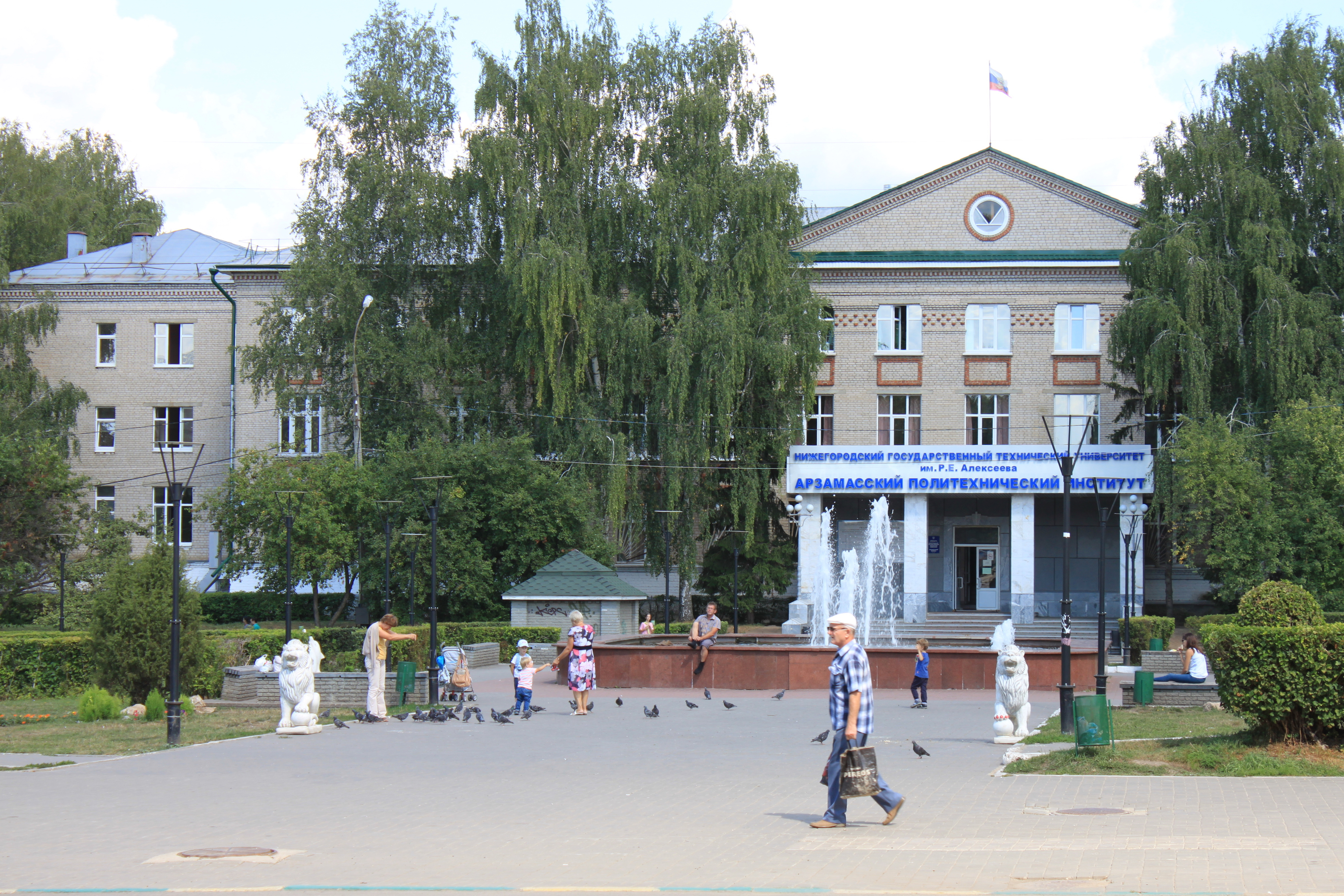 Polytechnic Institute